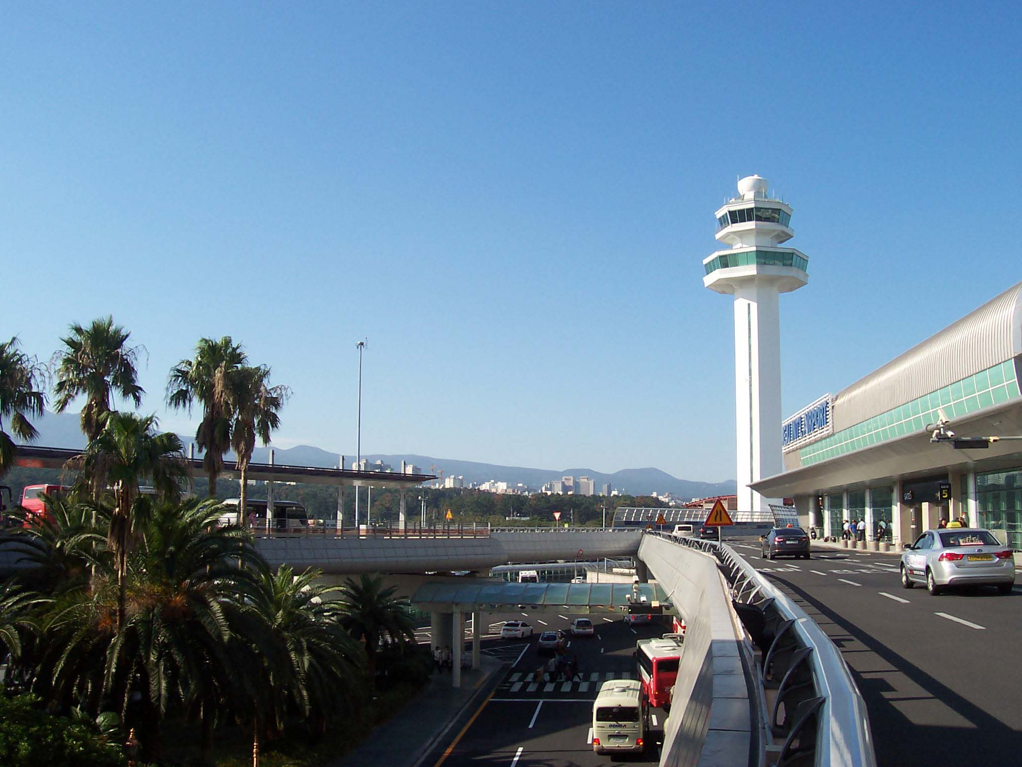 Jeju International Airport